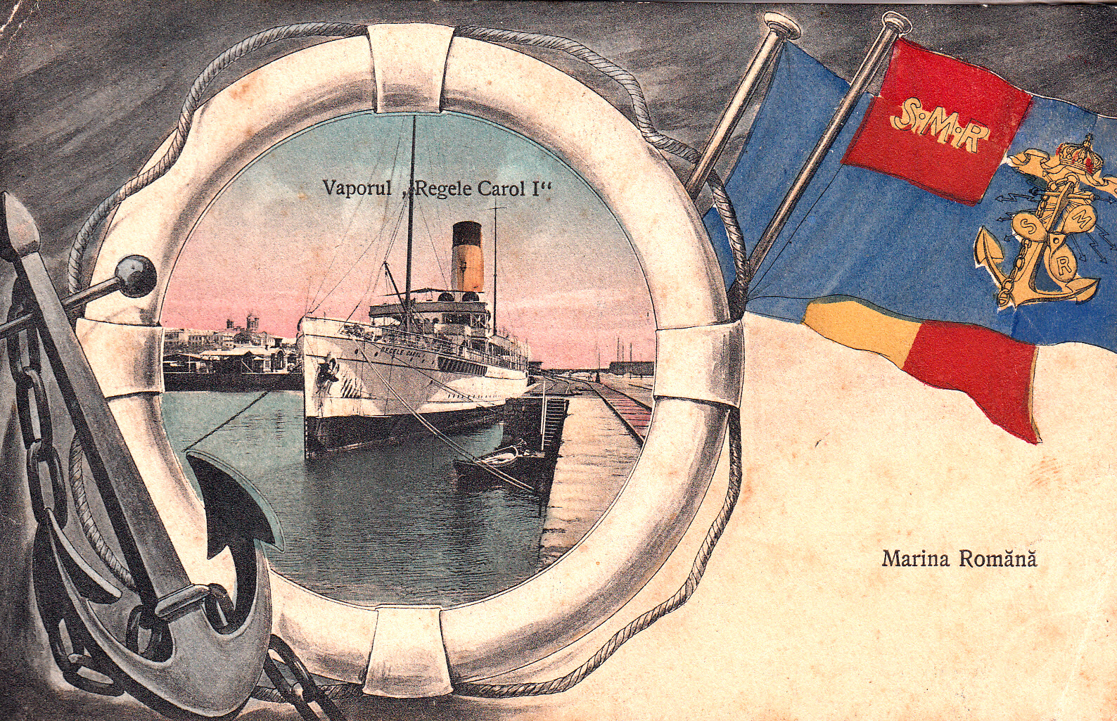 Postcard showing Regele Carol I cruise ship (later NMS Regele Carol I mine planter)